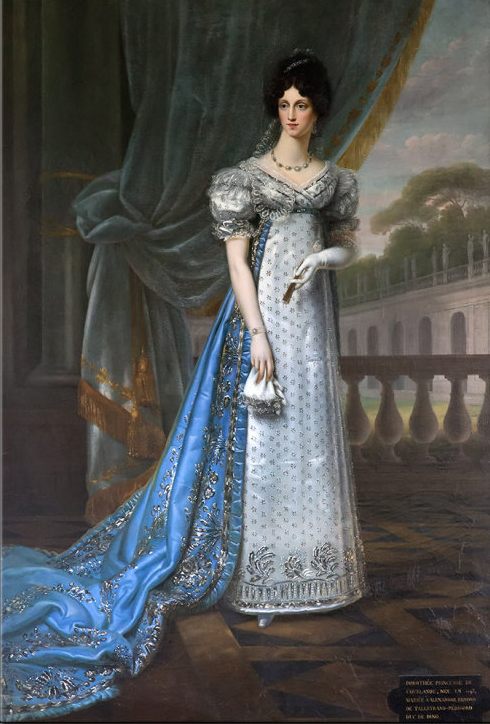 Dorothea von Biron, self-styled Dorothée de Courlande (Berlin 21 August 1793 — Sagan 19 September 1862) was a German-Baltic noblewoman.